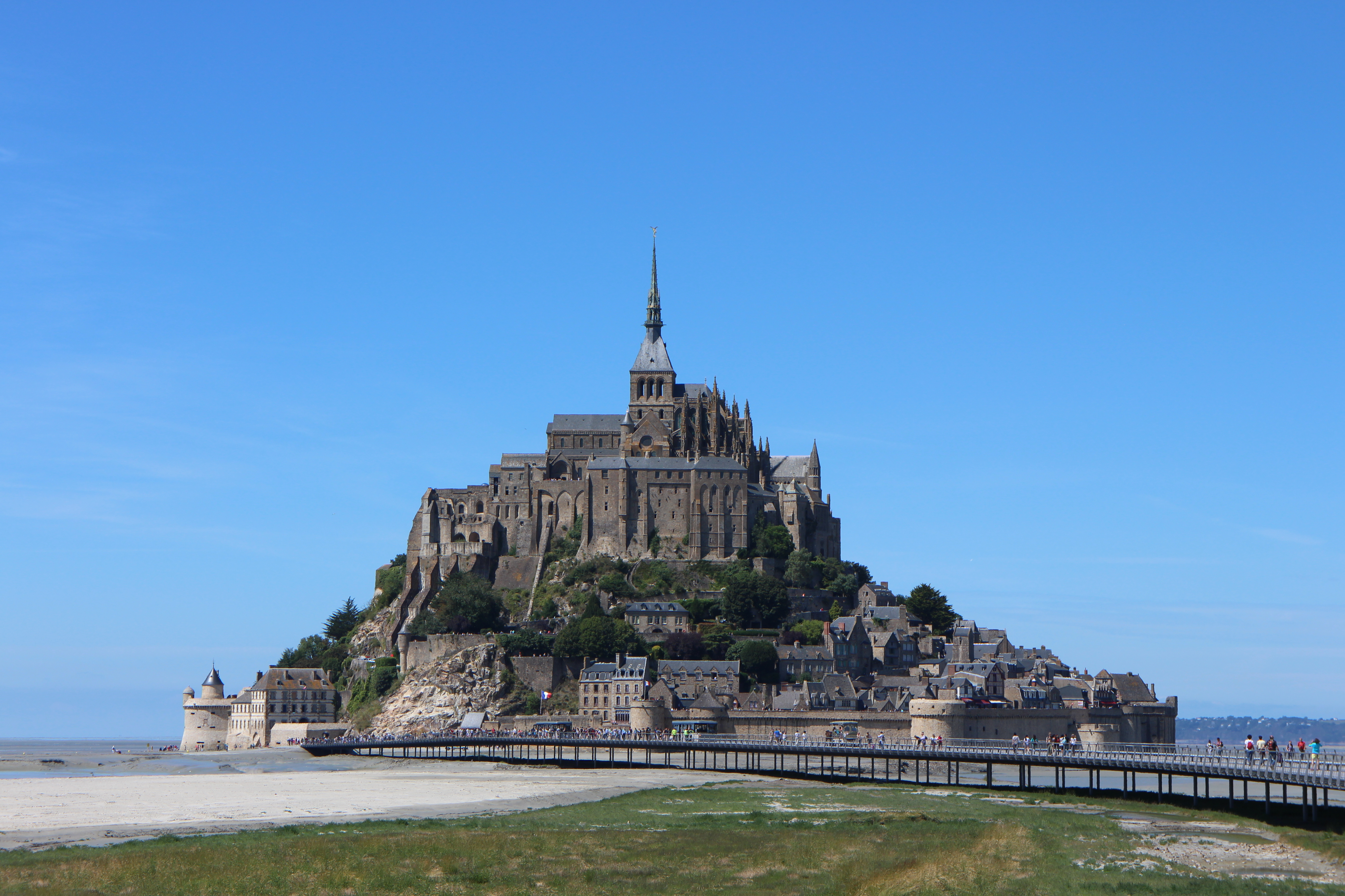 Mont Saint-Michel